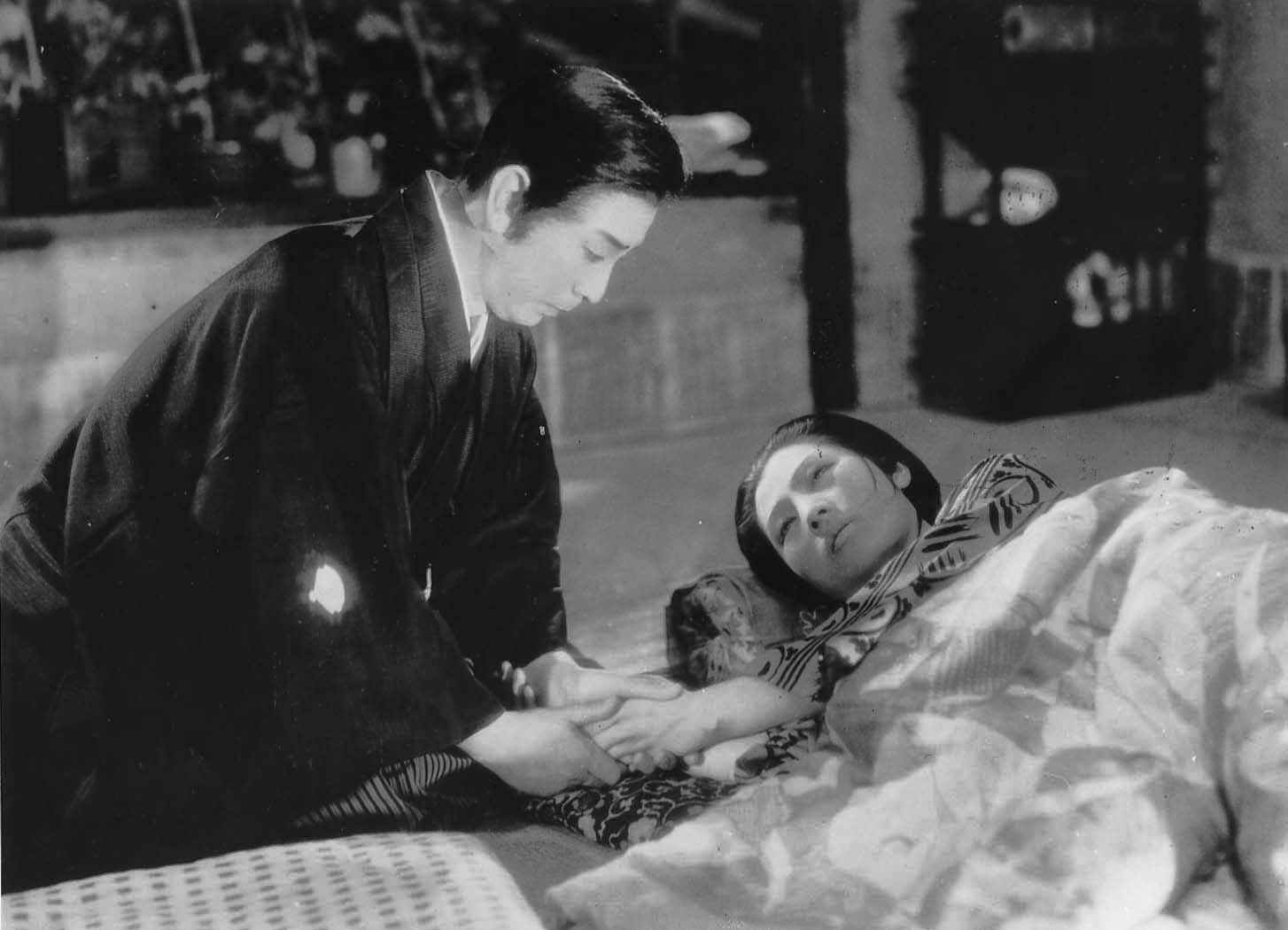 Shōtarō Hanayagi and Kakuko Mori in Zangiku monogatari (残菊物語), directed by Kenji Mizoguchi - 1939